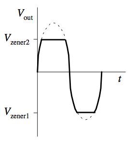 own work